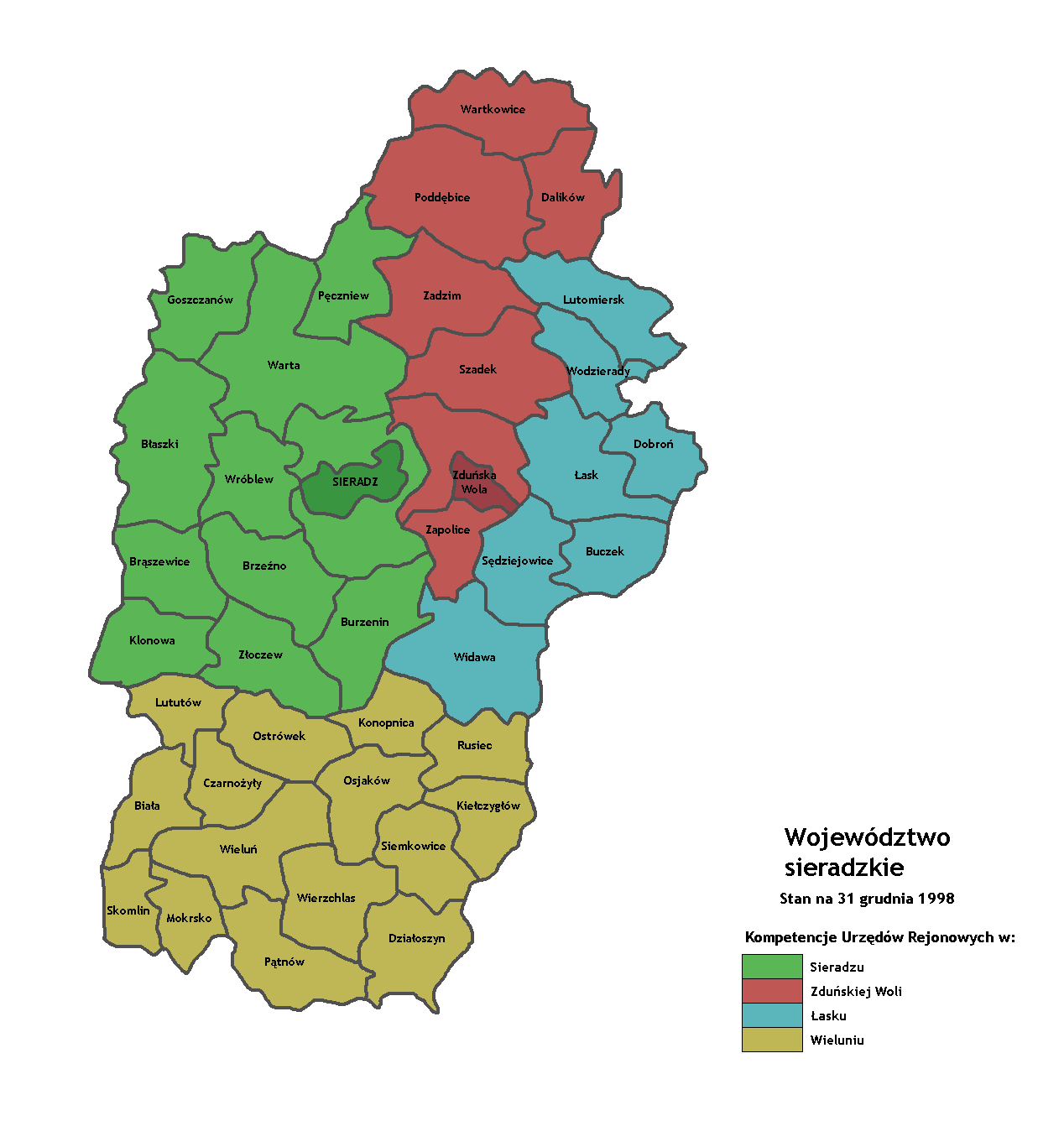 Map of the Sieradz voivodeship in the last day of its existence (31 december 1998).